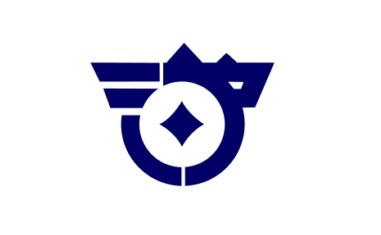 Flag of Ikeda Gifu